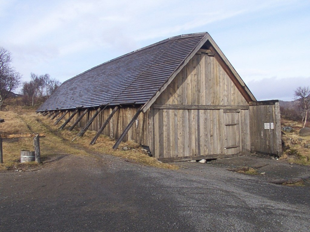 The 30 m. long Viking boathouse. Reconstruction based on archaeological excavations from Norway. Used in winter for housing the "Lofotr" viking ship.